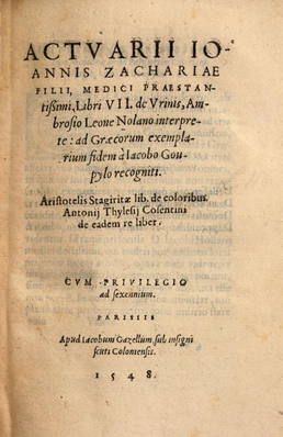 Libri VII de urinis, 1548, Johanes Zacharias Actuarius (1275-1328), Celio Calcagnini, Jacques Goupyl, Ambrogio Leone